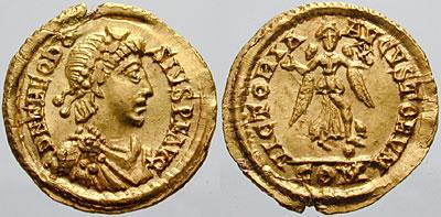 Visigoths Fifth Century AD. In the name of Honorius. AV Tremissis (1.44 gm). Uncertain mint. DN HONORI-VS P F AVG, diademed, draped and cuirassed bust right VICTORIA AVGVSTORVM Victory standing right, holding globe; in exergue: COM. Apparently unpublished. Good VF, small edge chip reglued.